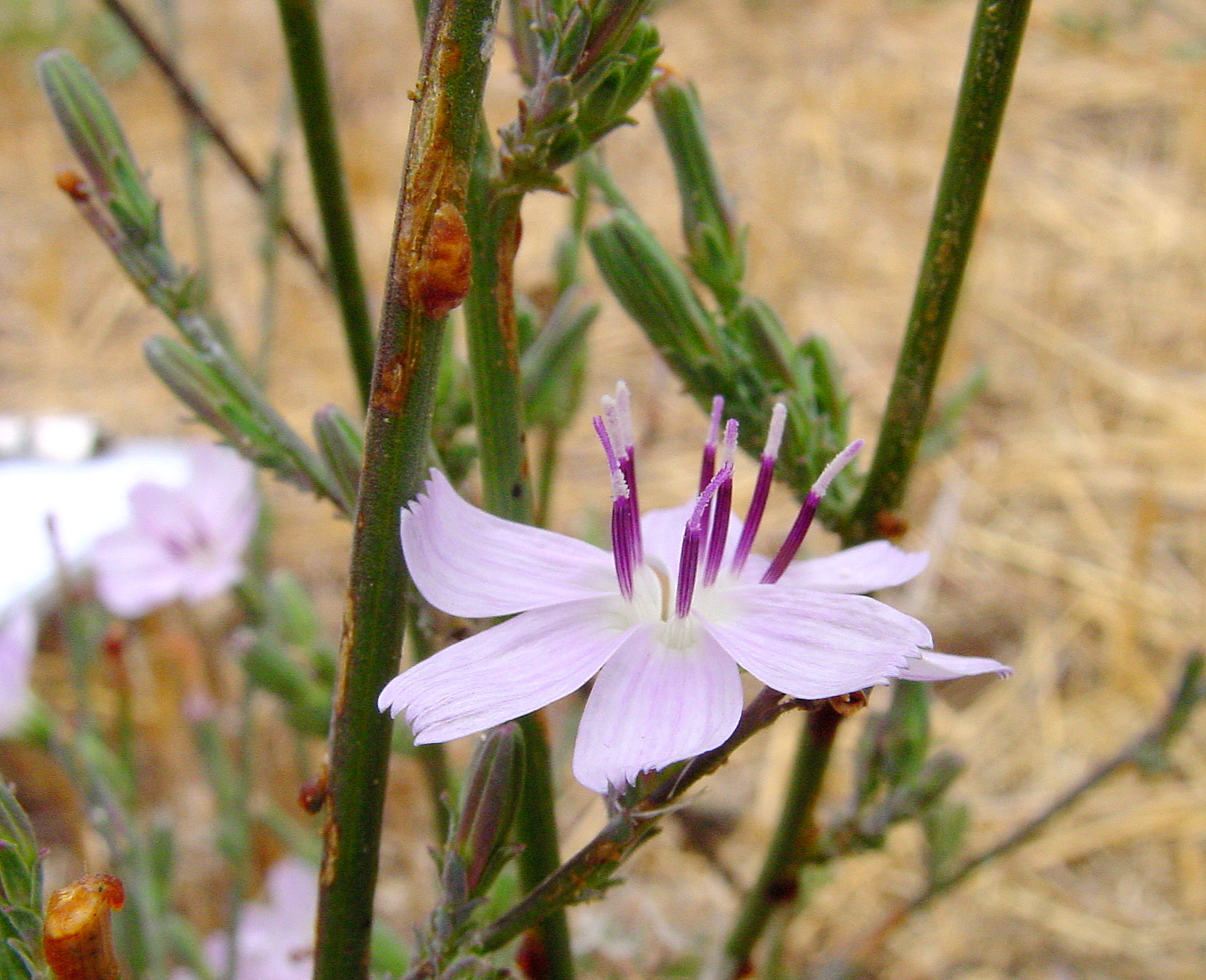 Flower of Stephanomeria virgata